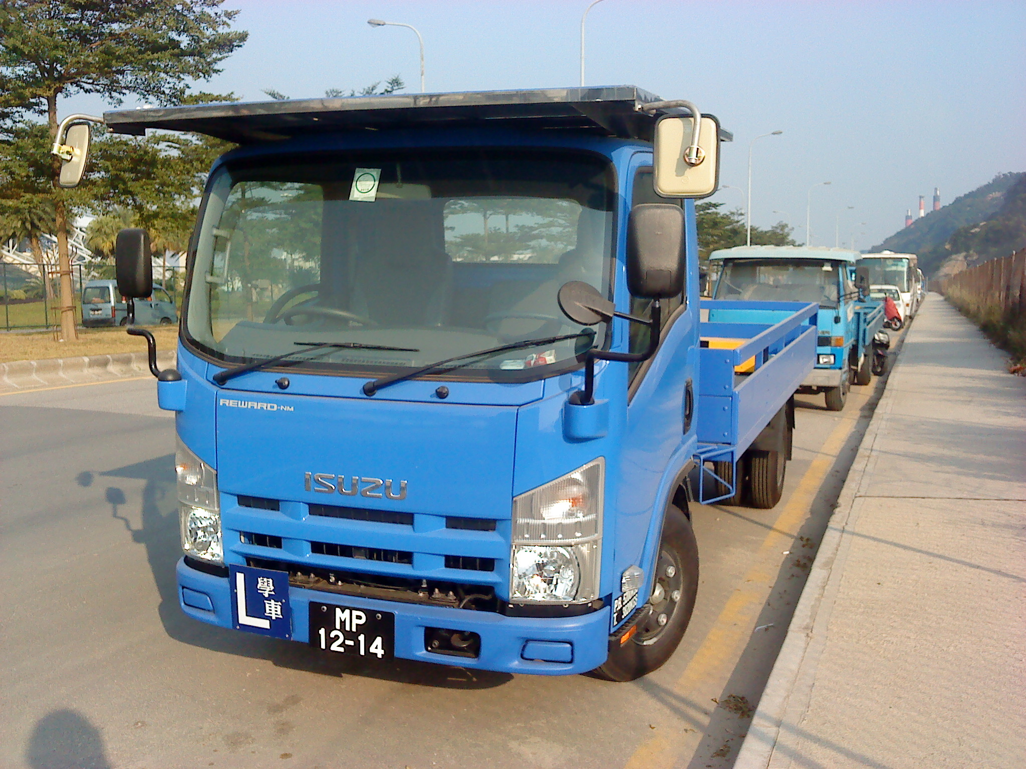 The front side of ISUZU ELF(export name:REWARD)NMR series training truck in Macau(series 4)